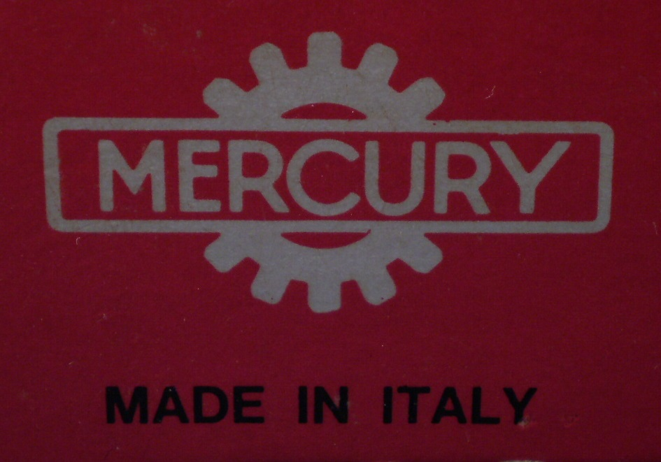 Toy name design.